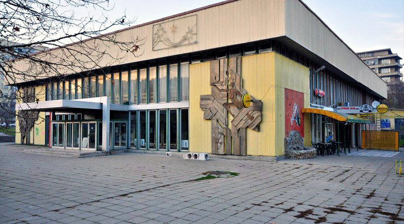 Mladost Sports Hall in Shumen, Bulgaria.